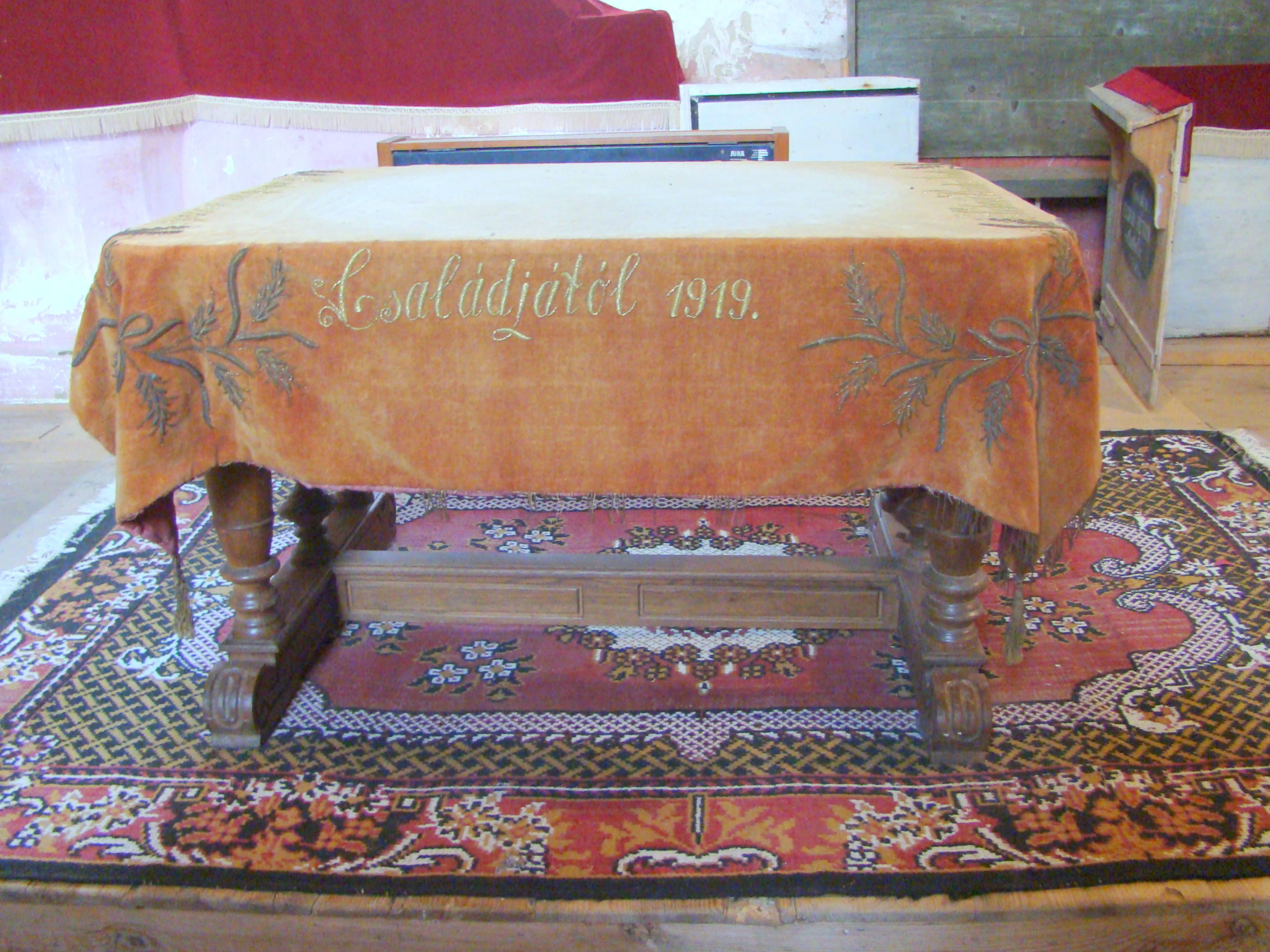 Fortified church in Cobor, Braşov County, Romania